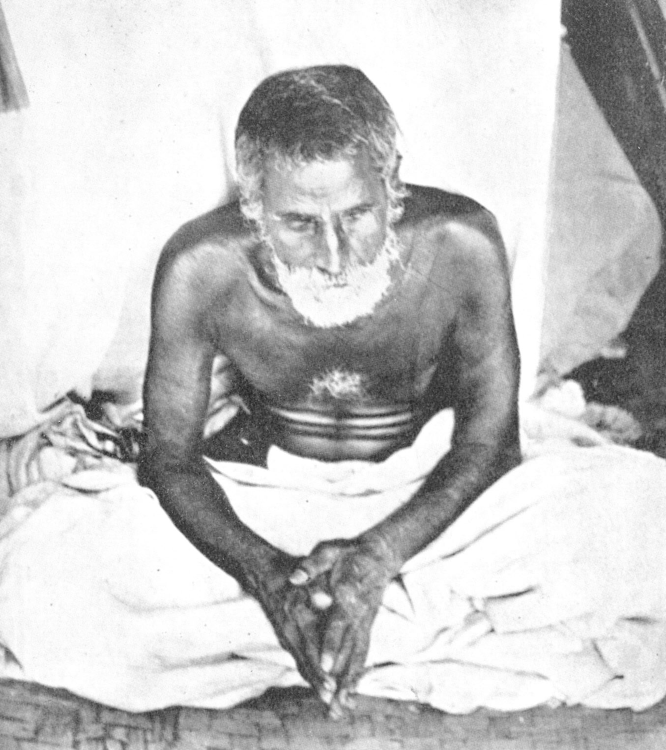 Gaurakisora Dasa Babaji, a renowned ascetic and saint in Gaudiya Vaisnavism and the guru of Bhaktisiddhanta Sarasvati. Circa 1900.